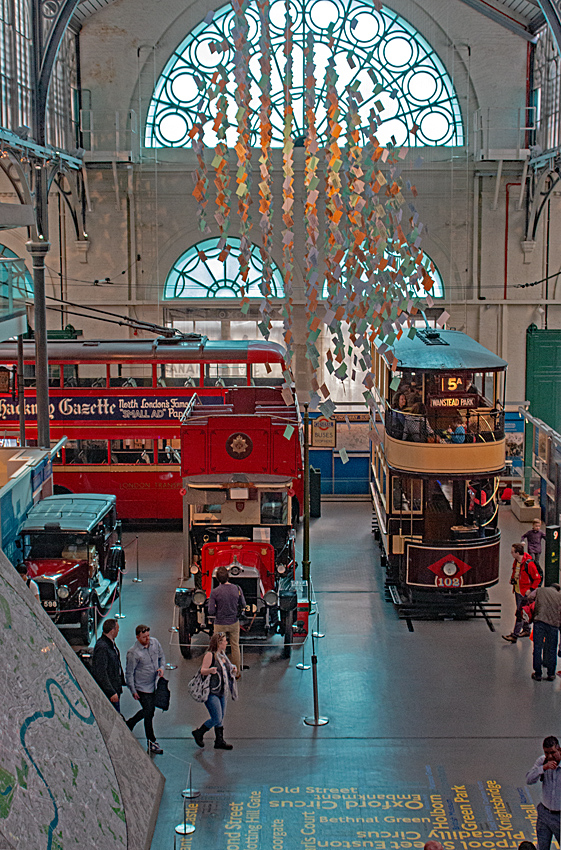 London Transport Museum main hall with Austin taxi, K2 trolleybus, B-type bus and West Ham Corporation tram